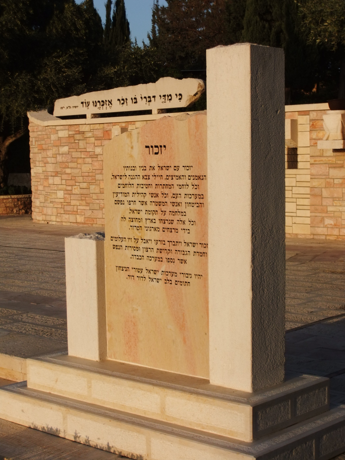 Secular Yizkor prayer engraved on rock in Kiryat Shaul military cemetary